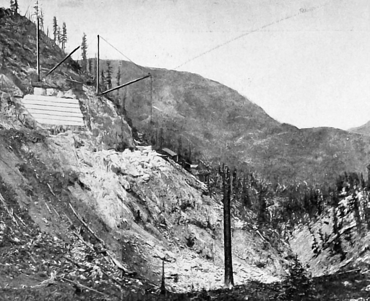 1906: Left - Yule Marble quarry #3 (#2 today), Colorado Yule Marble Company, at 9,500 feet above sea level. View is looking north through the Yule Creek Valley. At far right - bottom of the slope is Yule Creek